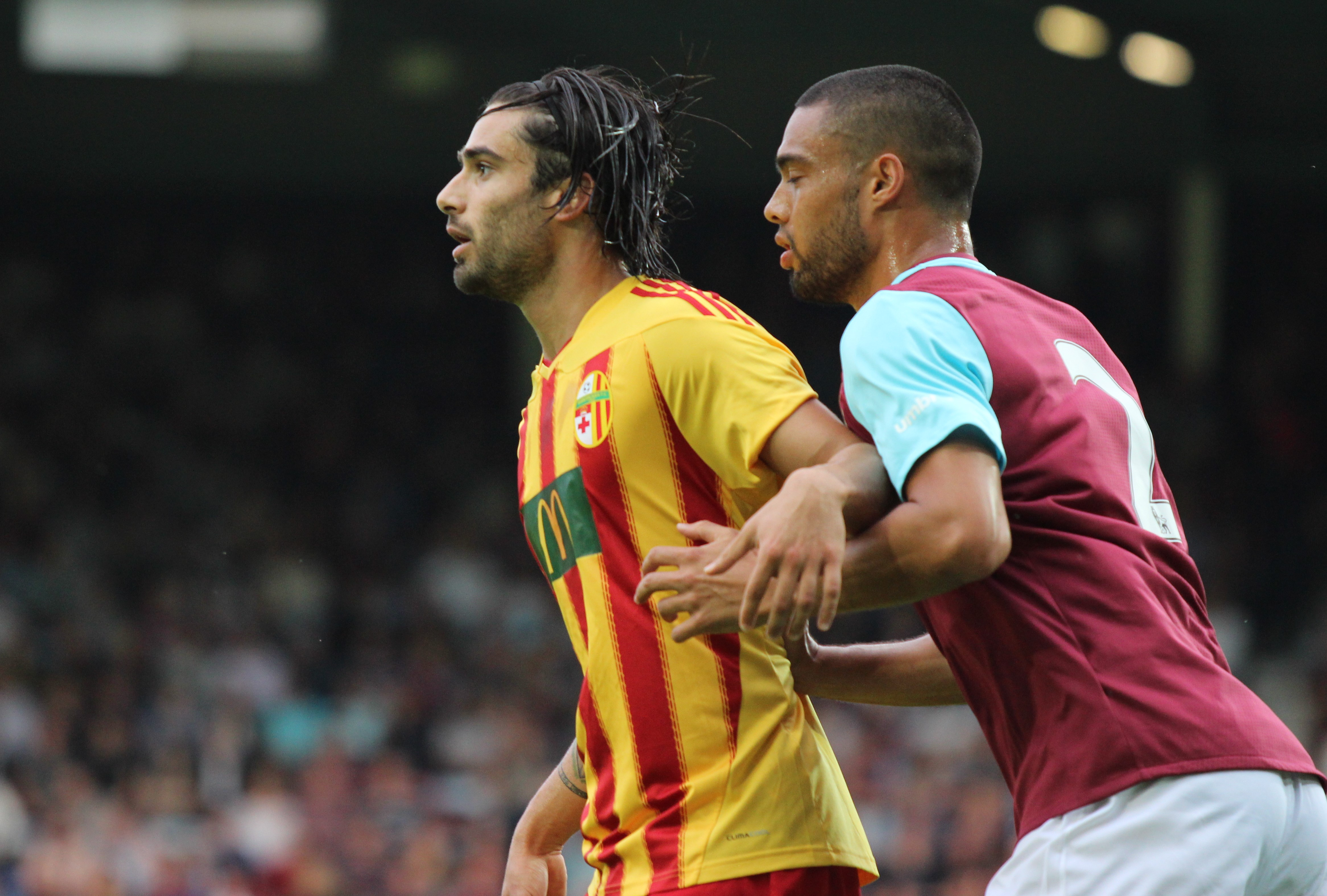 Rowen Muscat of Birkirkara is pressured by Winston Reid of West Ham.